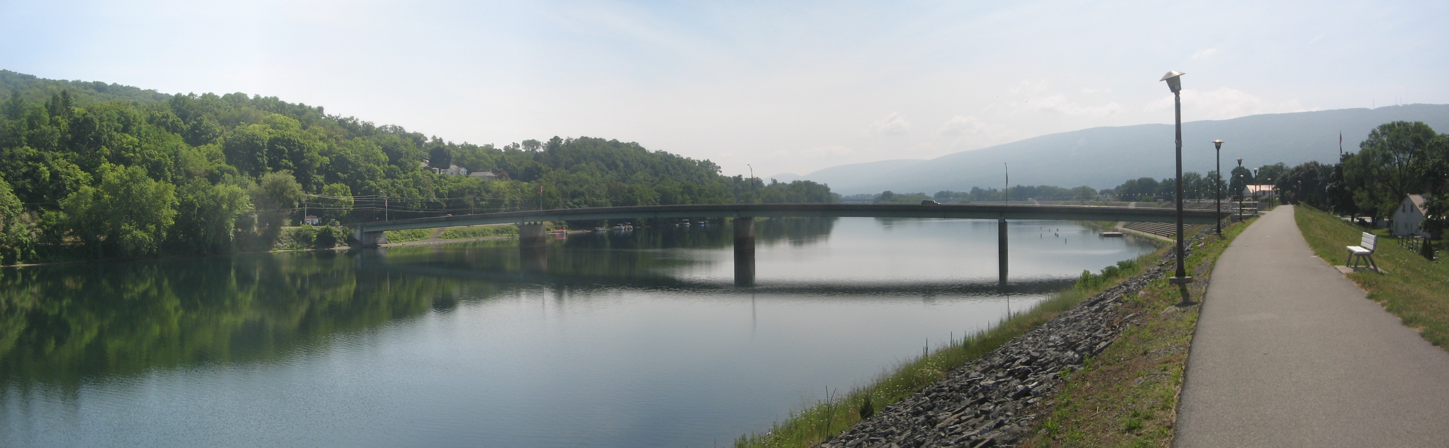 View from the flood control levee looking downstream — to the Jay Street or Veterans Bridge over the West Branch Susquehanna River in Lock Haven, Clinton County, Pennsylvania. Bald Eagle Mountain is in the background at right.